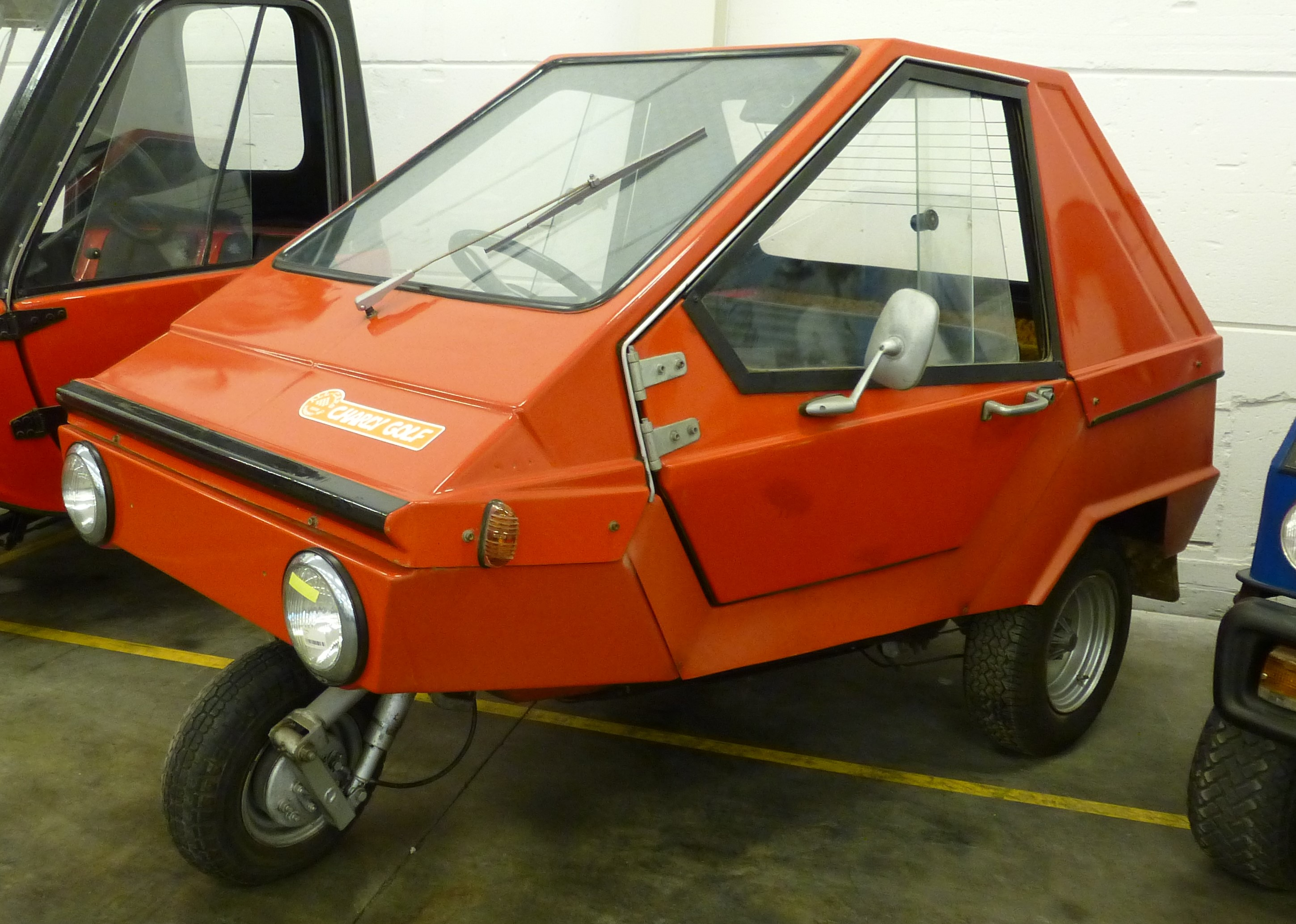 All Cars Charly Golf